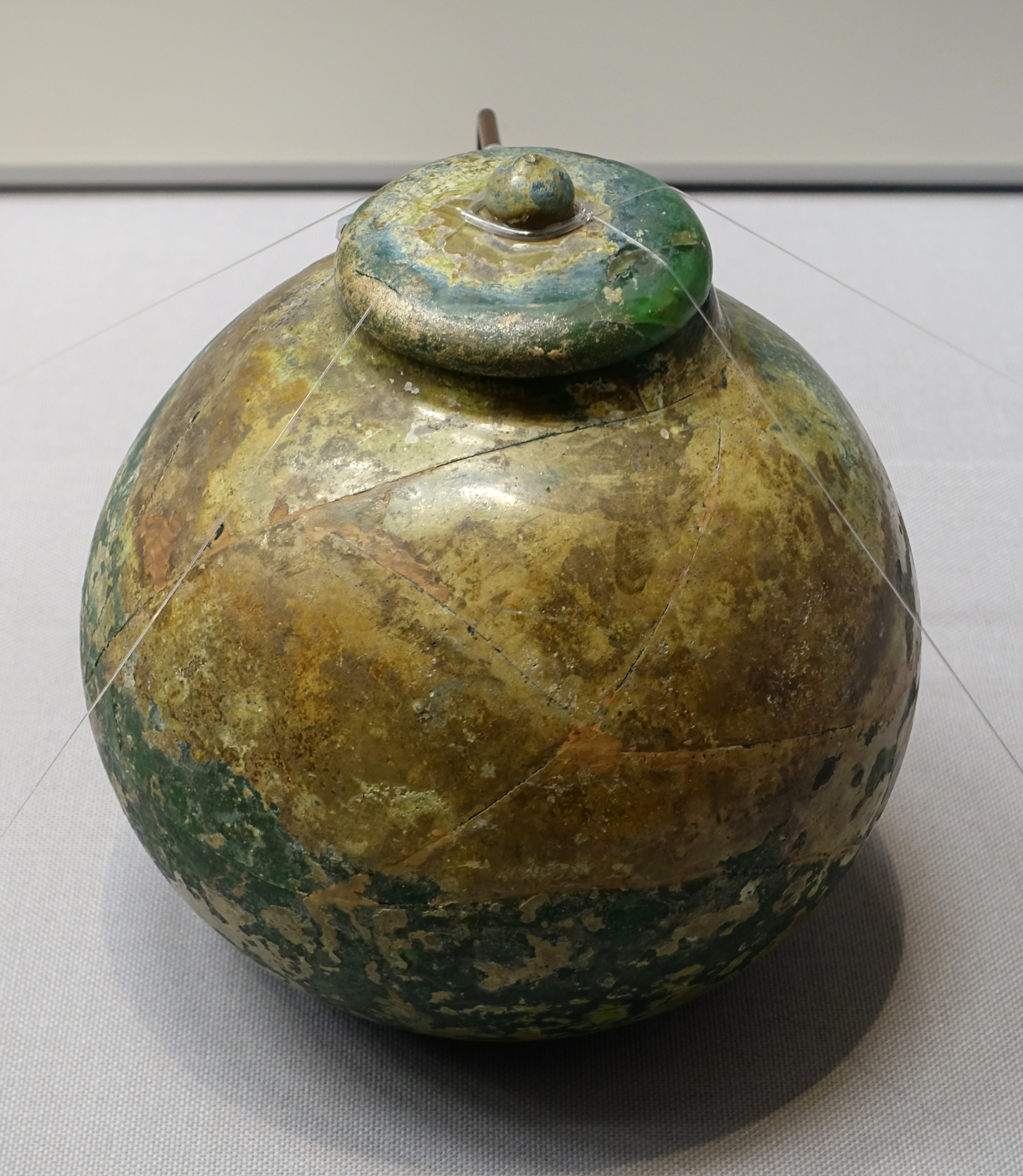 Exhibit in the Tokyo National Museum - Tokyo, Japan.